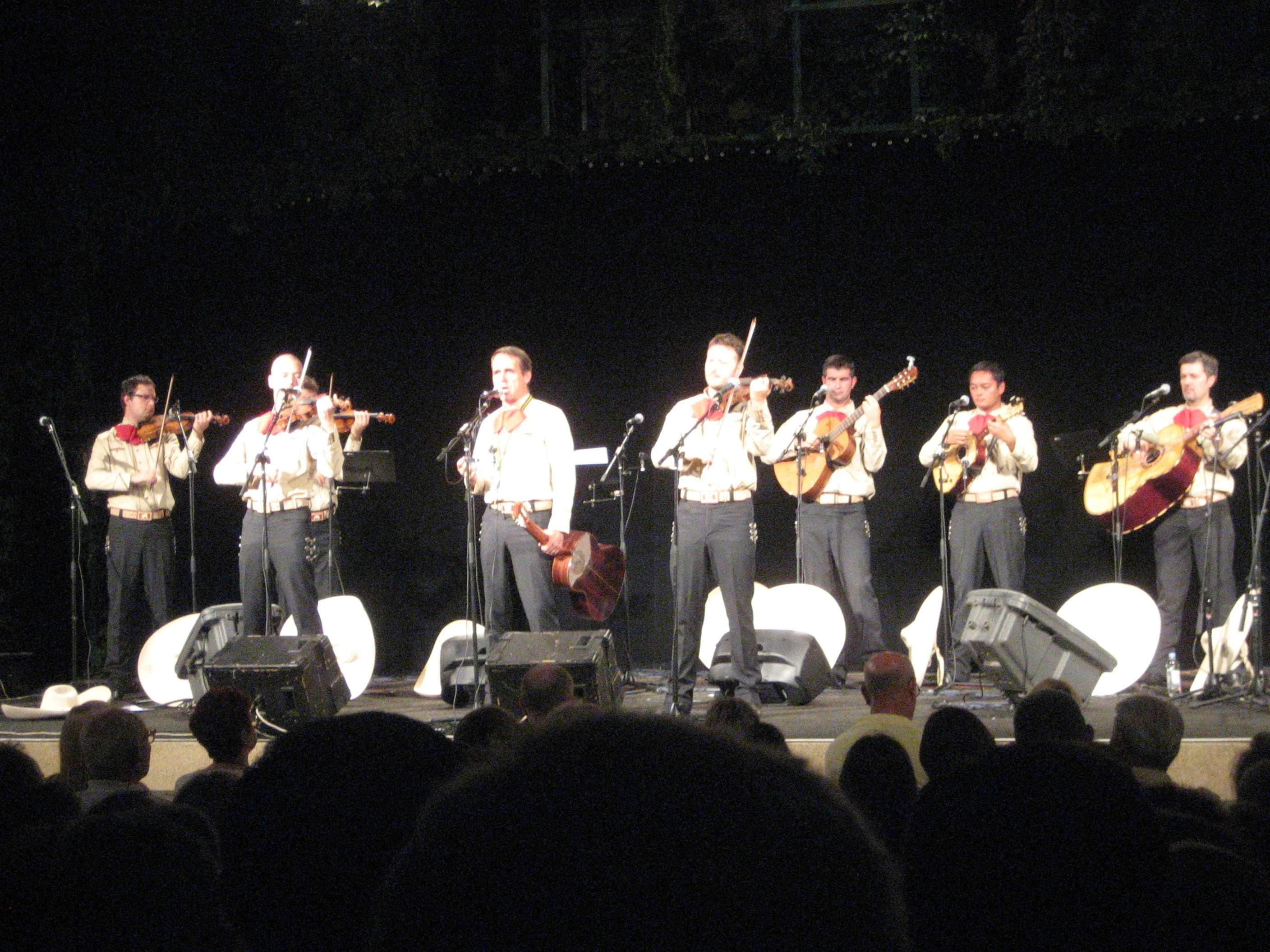 Mariachi Los Caballeros, Croatia